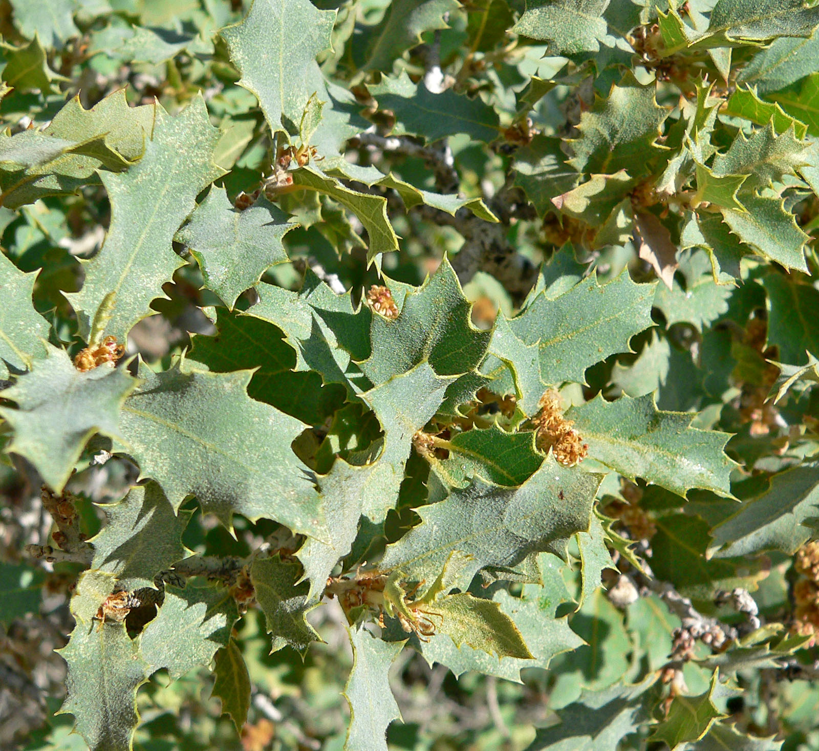 Photo of Quercus turbinella in Calico Basin west of Las Vegas, Nevada